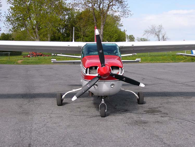 Cessna T210L (C-GHAW)